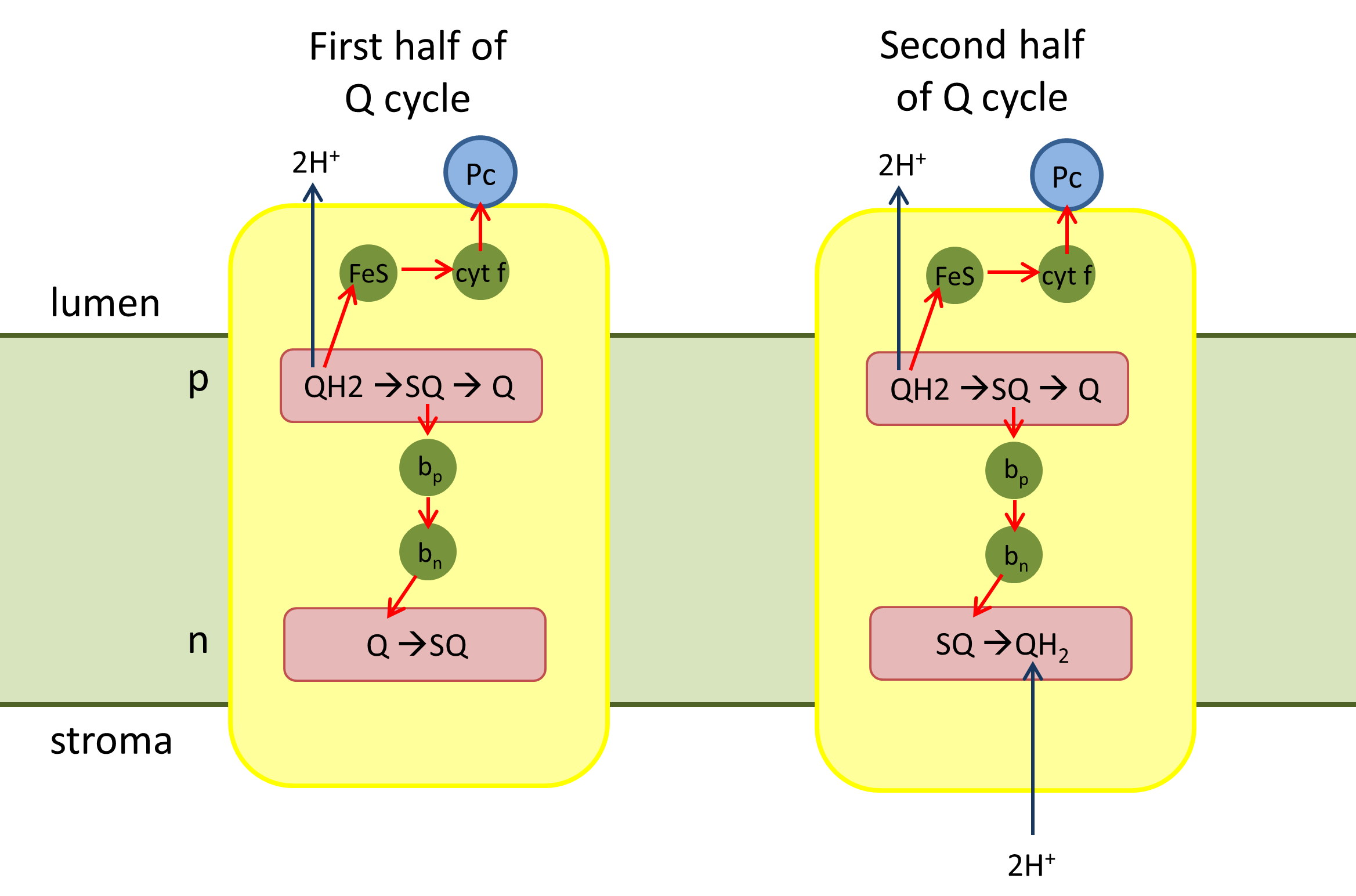 cytochrome b6f complex (plastoquinol—plastocyanin reductase), Q cycle